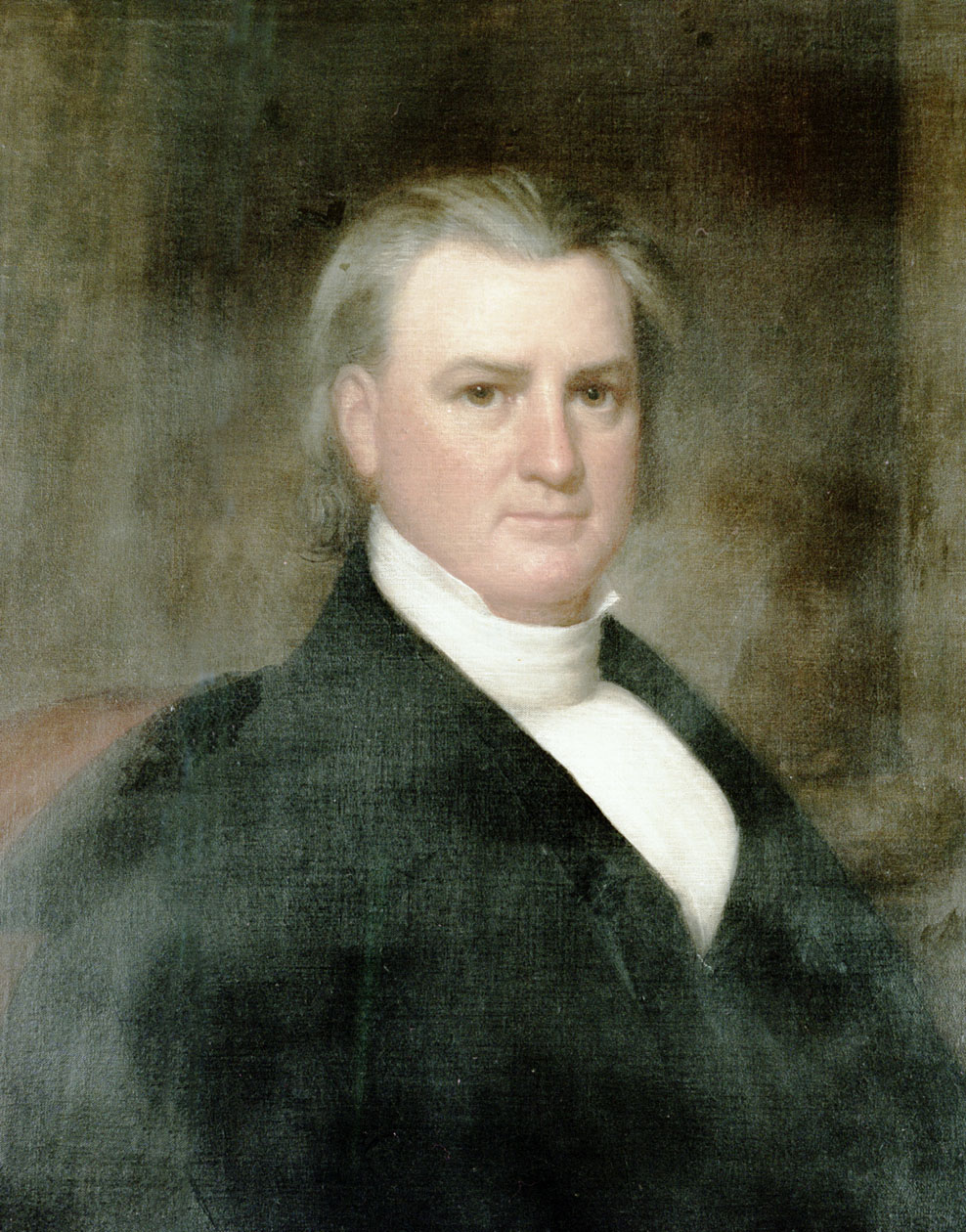 James Iredell, Jr., 1827 - 1828 From the General Negative Collection, State Archives of North Carolina, Raleigh, NC.